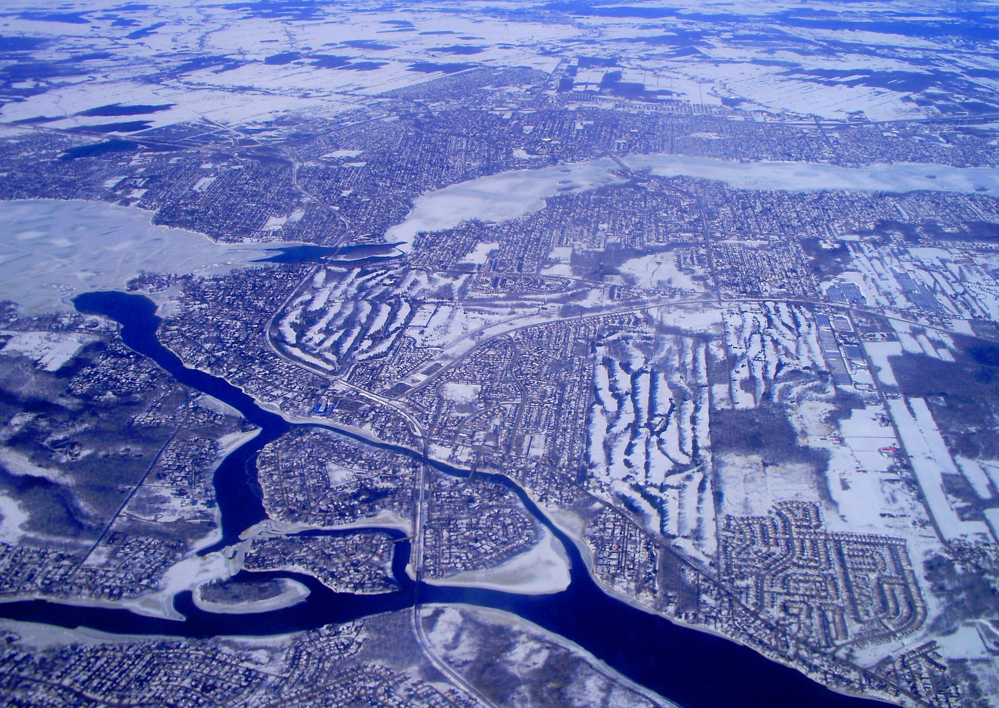 Aerial photo of rivière des Mille Îles (top), rapides Lalemant (left) and rivière des Prairies (bottom), south-west of Laval. Bottom: Island of Montreal ( Pierrefonfs-Roxboro), left: Île Bizard Ste. Geneviève, Right: Jesus Island, top: town of St. Eustache. The small islands visible entirely are île Bigras, île Pariseau, île Verte and île Ronde.